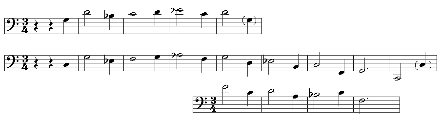 Bass patterns from BWV 582/1, Passacaglia in C minor, by Johann Sebastian Bach (1685-1750) and Christe - Trio en passacaille from Messe du Deuziesme ton, by André Raison (c.1650-1719). Made using Sibelius 4 by Jashiin. The music quoted is in the public domain, and the image is hereby released into the public domain by Jashiin.